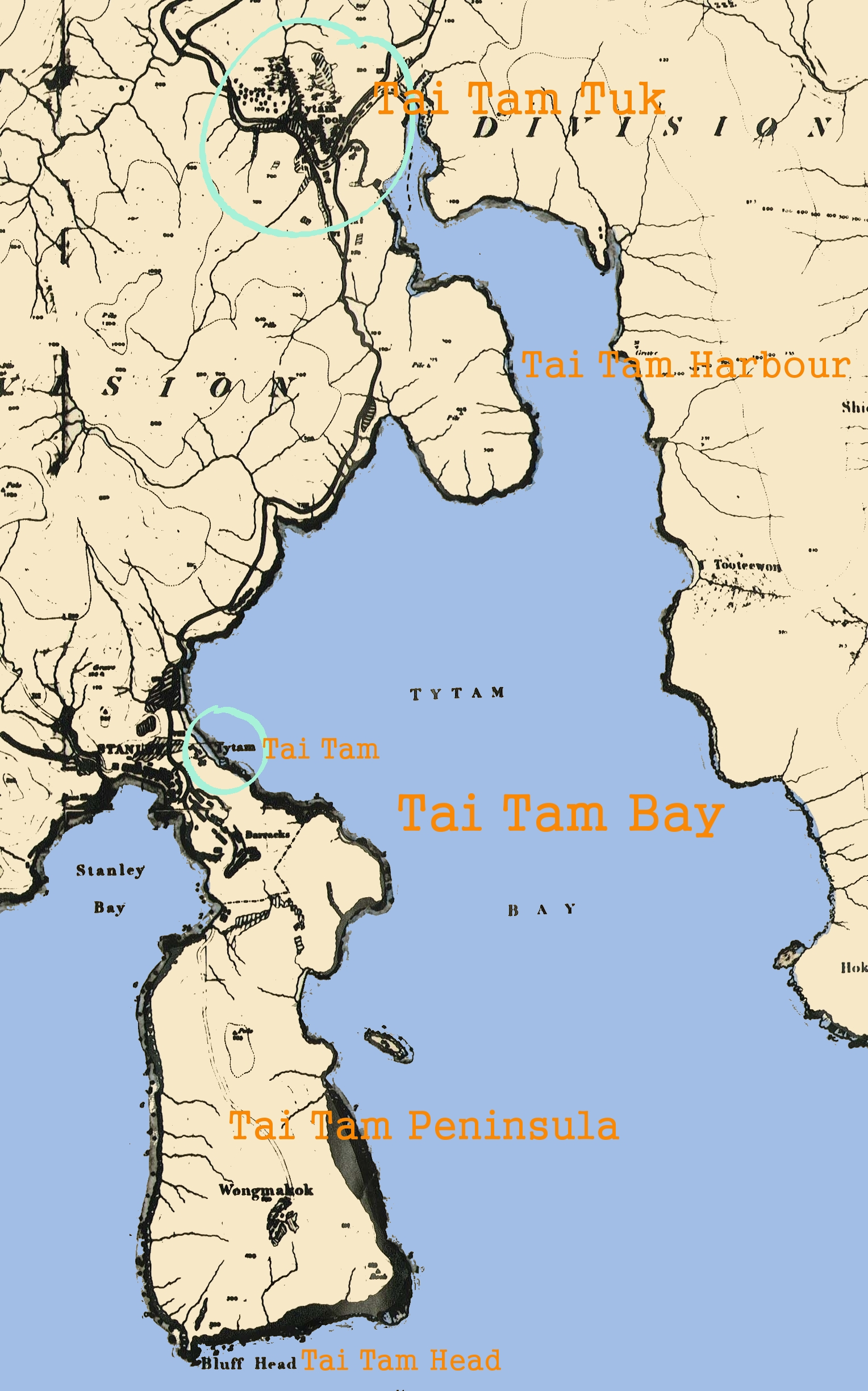 Illustrative map of Tai Tam. (Adapted from The Ordnance Map of Hong Kong 1845 by Lieut. Collinson R. E. and John Francis Davis) Created by User:HenryLi